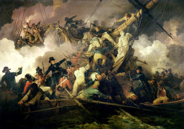 The Cutting-Out of the French Corvette, 'La Chevrette', 21st July 1801